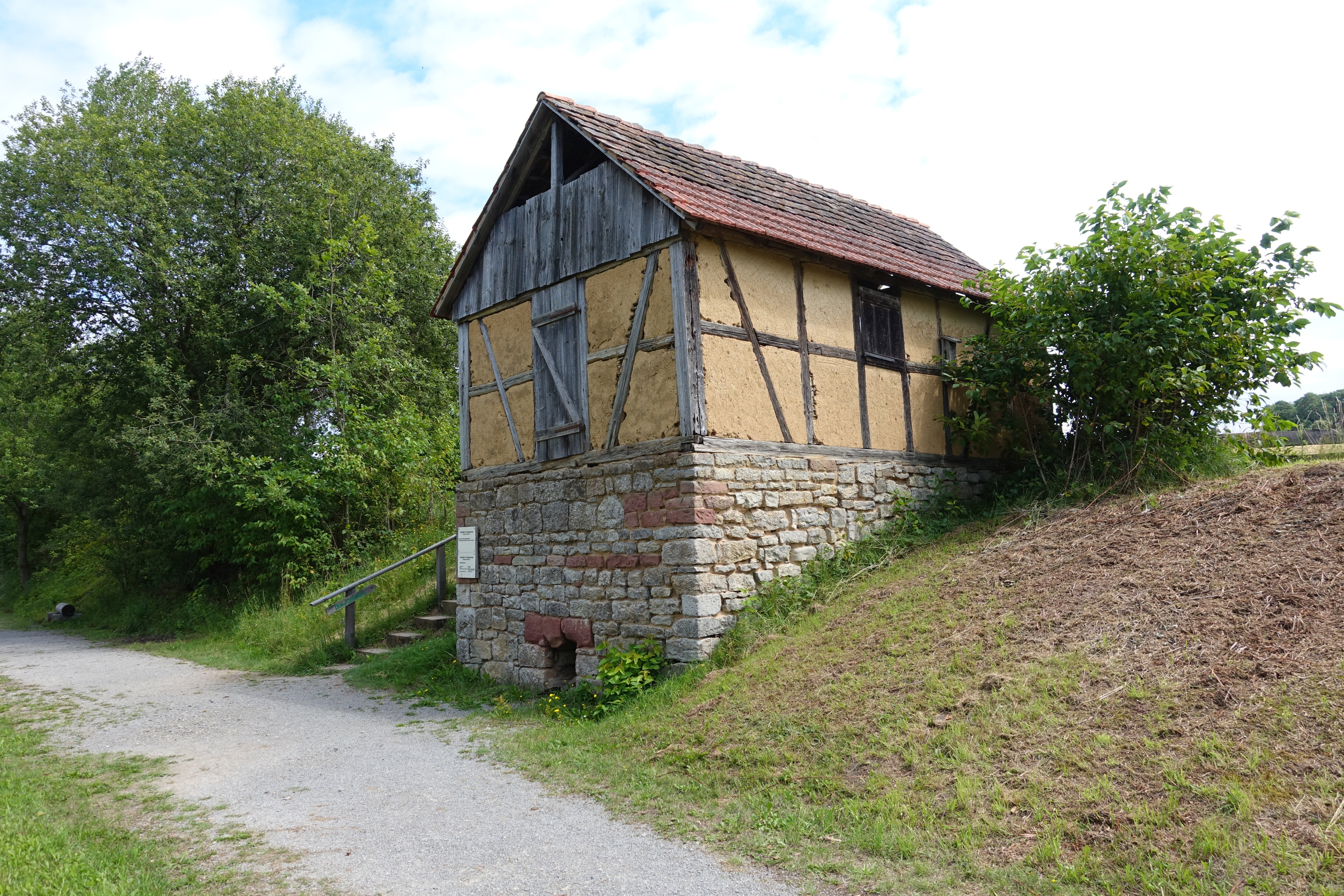 Oast house for spelt, Odenwälder Freilandmuseum Walldürn-Gottersdorf (Germany)